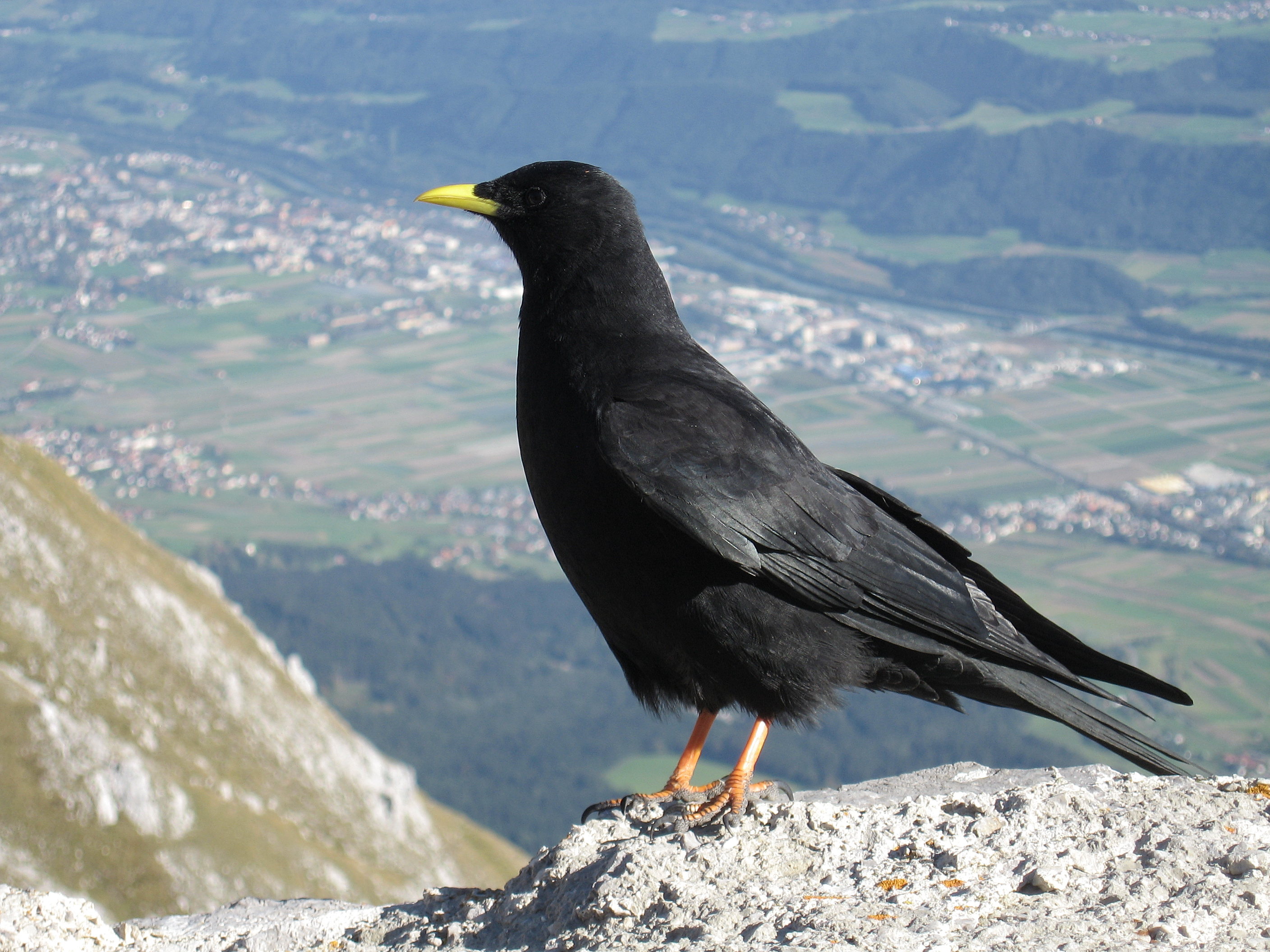 Austria, Innsbruck, Alpine chough (Pyrrhocorax graculus), at the Hafelekar near Innsbruck, Austria.